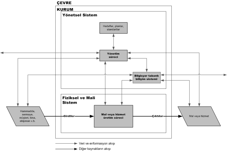 Computer-based information system (CBIS)